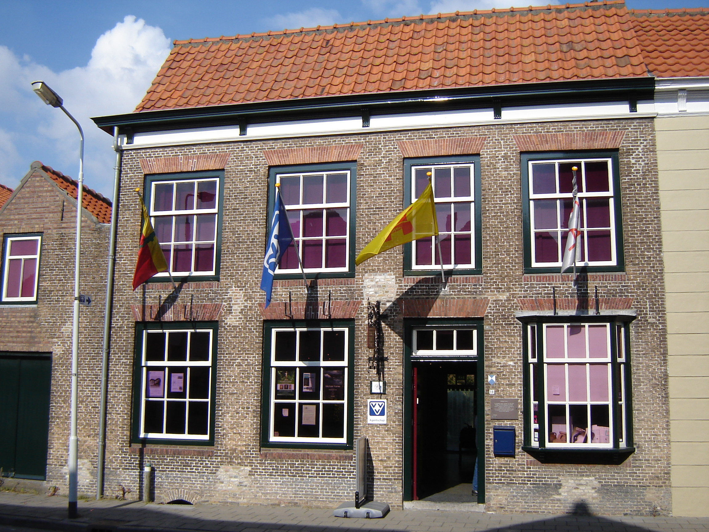 Archeological museum in Aardenburg (located in an old shop building). Aardenburg, Sluis, Zeeland, Netherlands